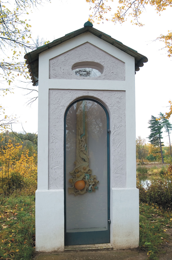 Lubo Kristek: Birth and Simultaneous Damnation of Sphere, 1978, ceramic, 135 x 90 x 40 cm